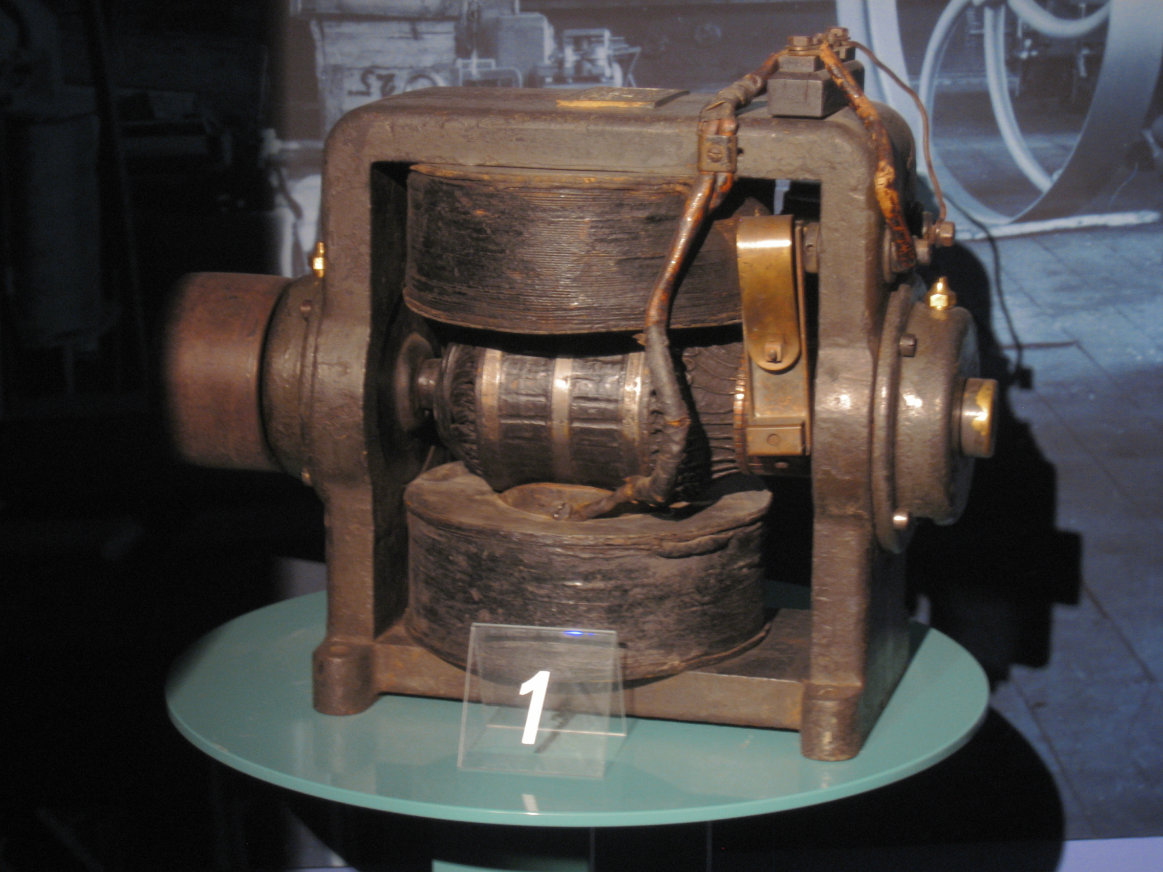 Old Strömberg M-model number 416 from 1900.